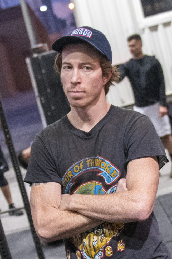 Marine Corps Gen. Joe Dunford, chairman of the Joint Chiefs of Staff, meets with deployed service members at Naval Support Activity Bahrain, Dec. 22, 2018. Dunford, along with USO entertainers, visited service members who are away from home during the holidays at various locations. This year’s entertainers include actors Milo Ventimiglia, Wilmer Valderrama, DJ J Dayz, Fittest Man on Earth Matt Fraser, 3-time Olympic Gold Medalist Shaun White, Country Music Singer Kellie Pickler, and comedian Jessiemae Peluso. (DoD photo by Navy Petty Officer 1st Class Dominique A. Pineiro)